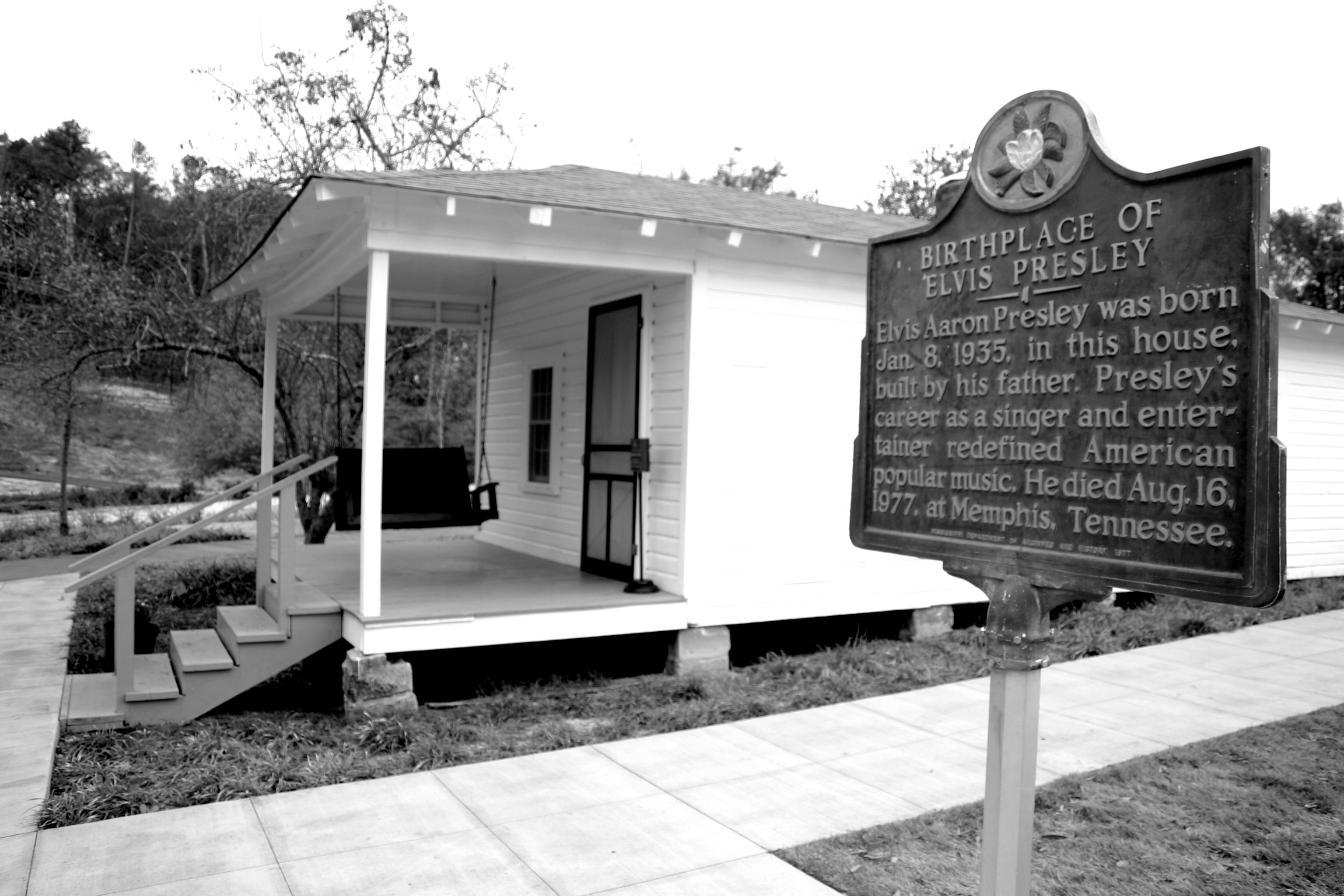 Boyhood home of Elvis Presley.